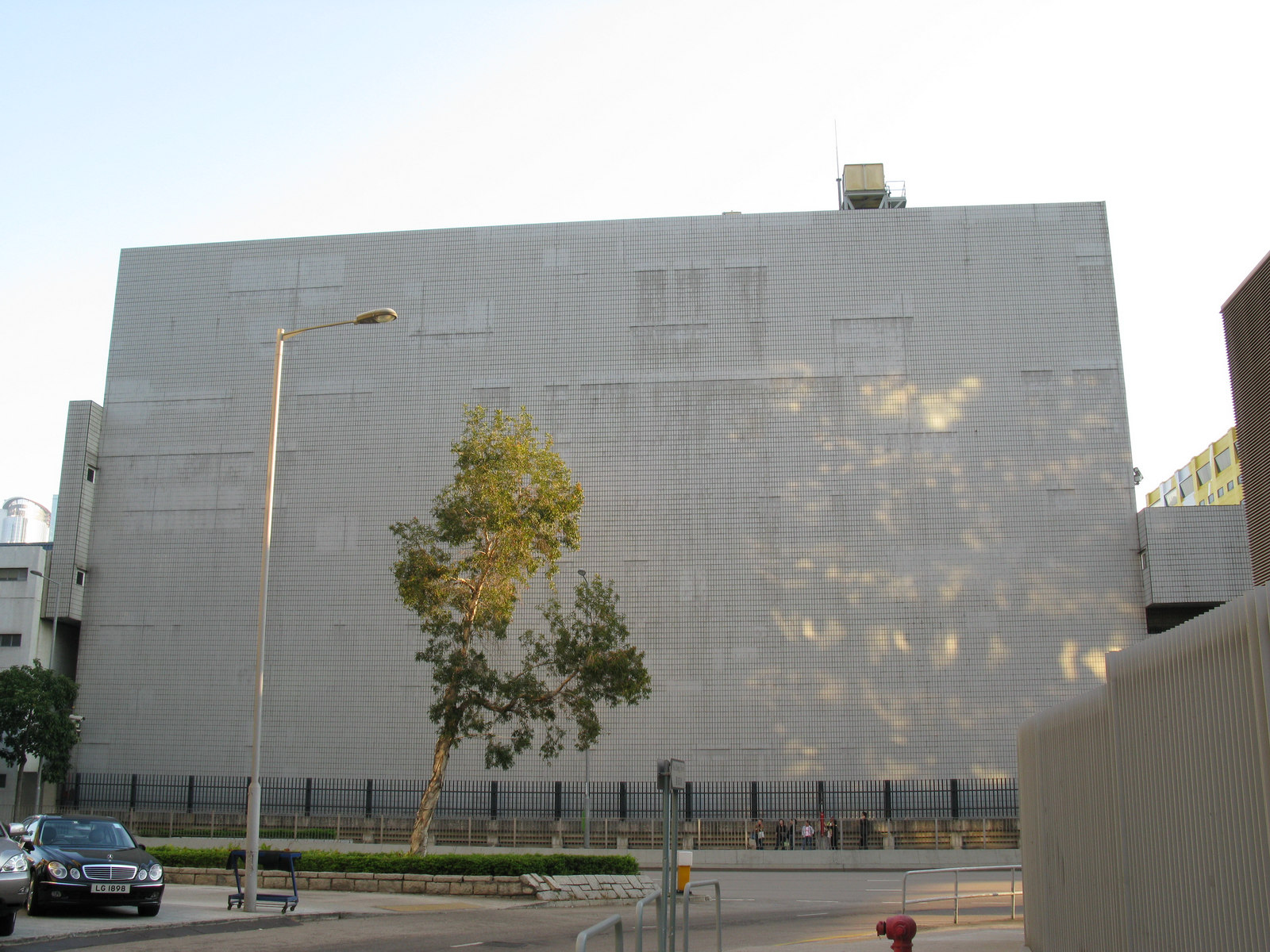 HSBC New Treasury Building